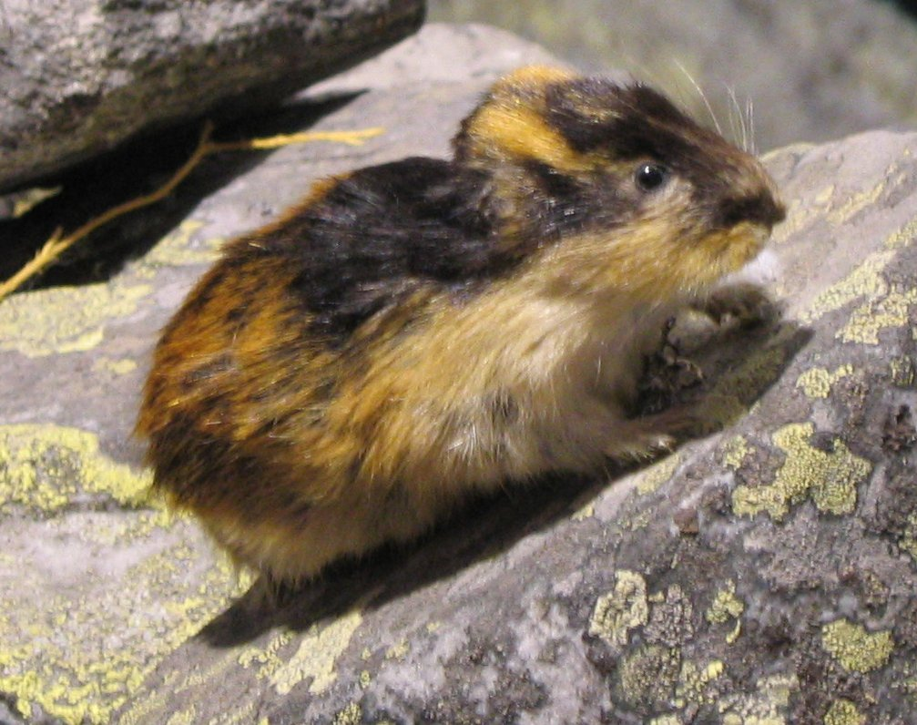 Taxidermied Norway lemming (Lemmus lemmus).